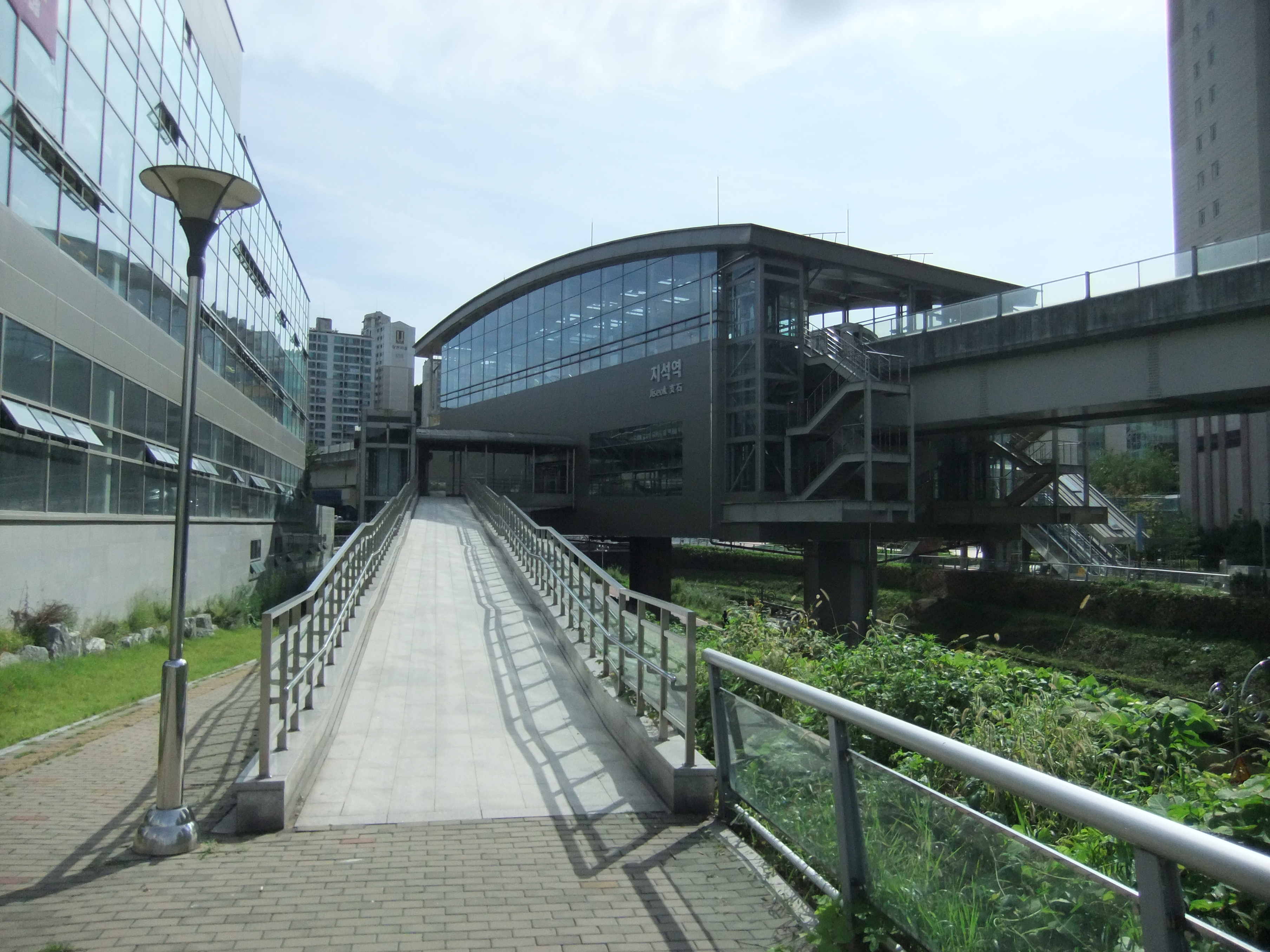 jiseok station in yongin LRT in korea